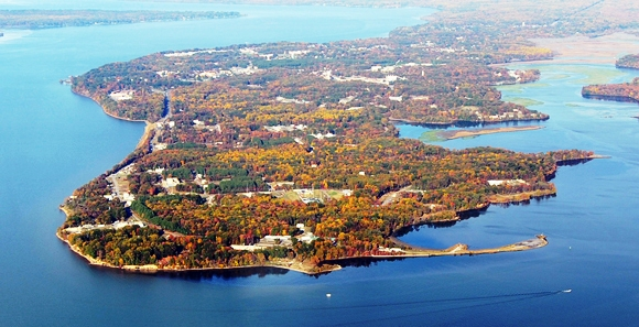 U.S. Navy Indian Head Naval Surface Warfare Center aireal image